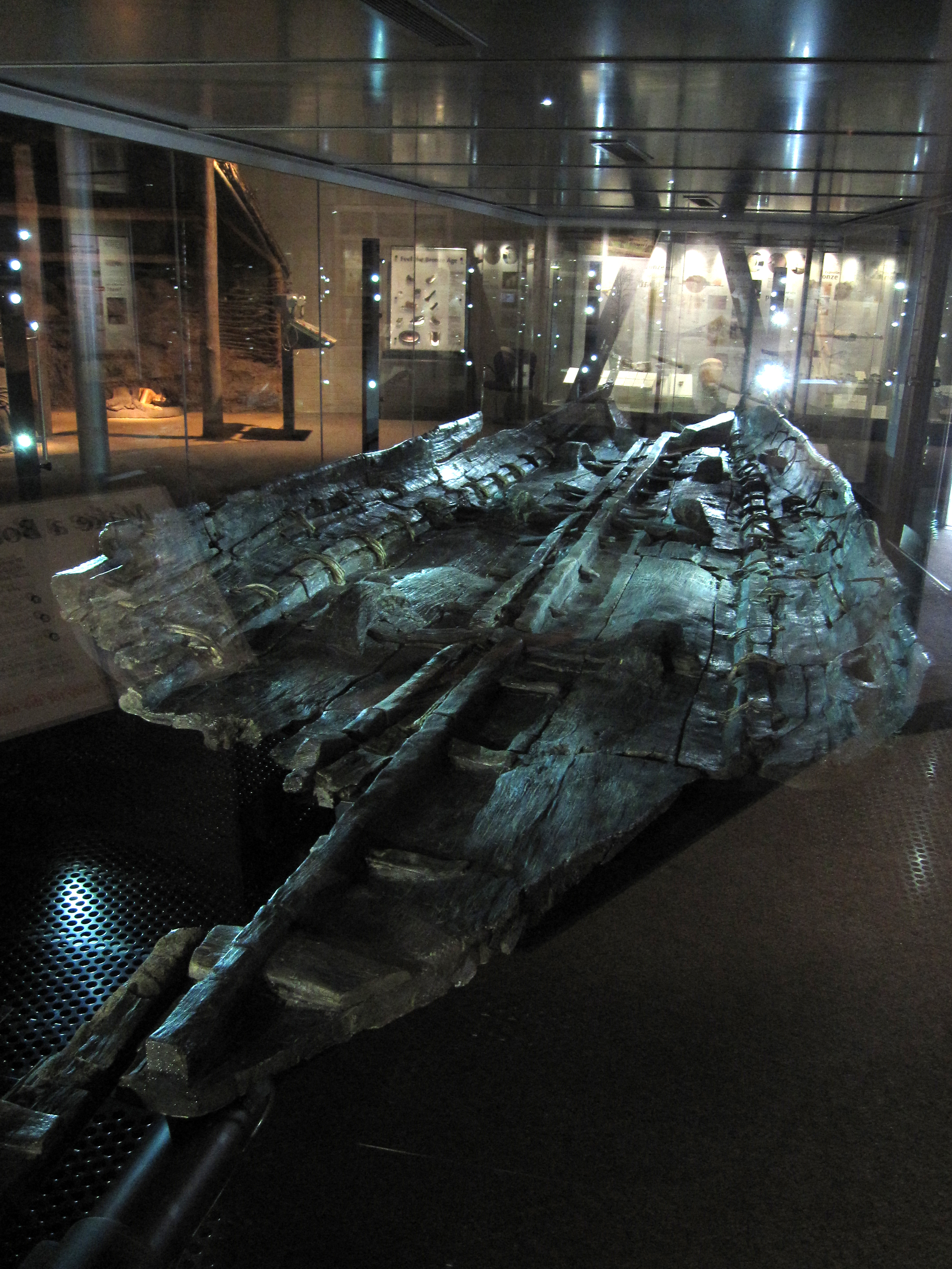 it's really great! @dover museum